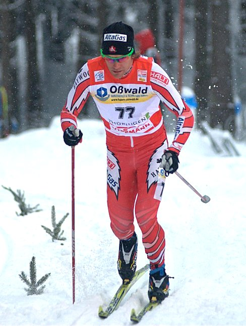 Devon Kershaw at the Tour de Ski 2010 in Oberhof